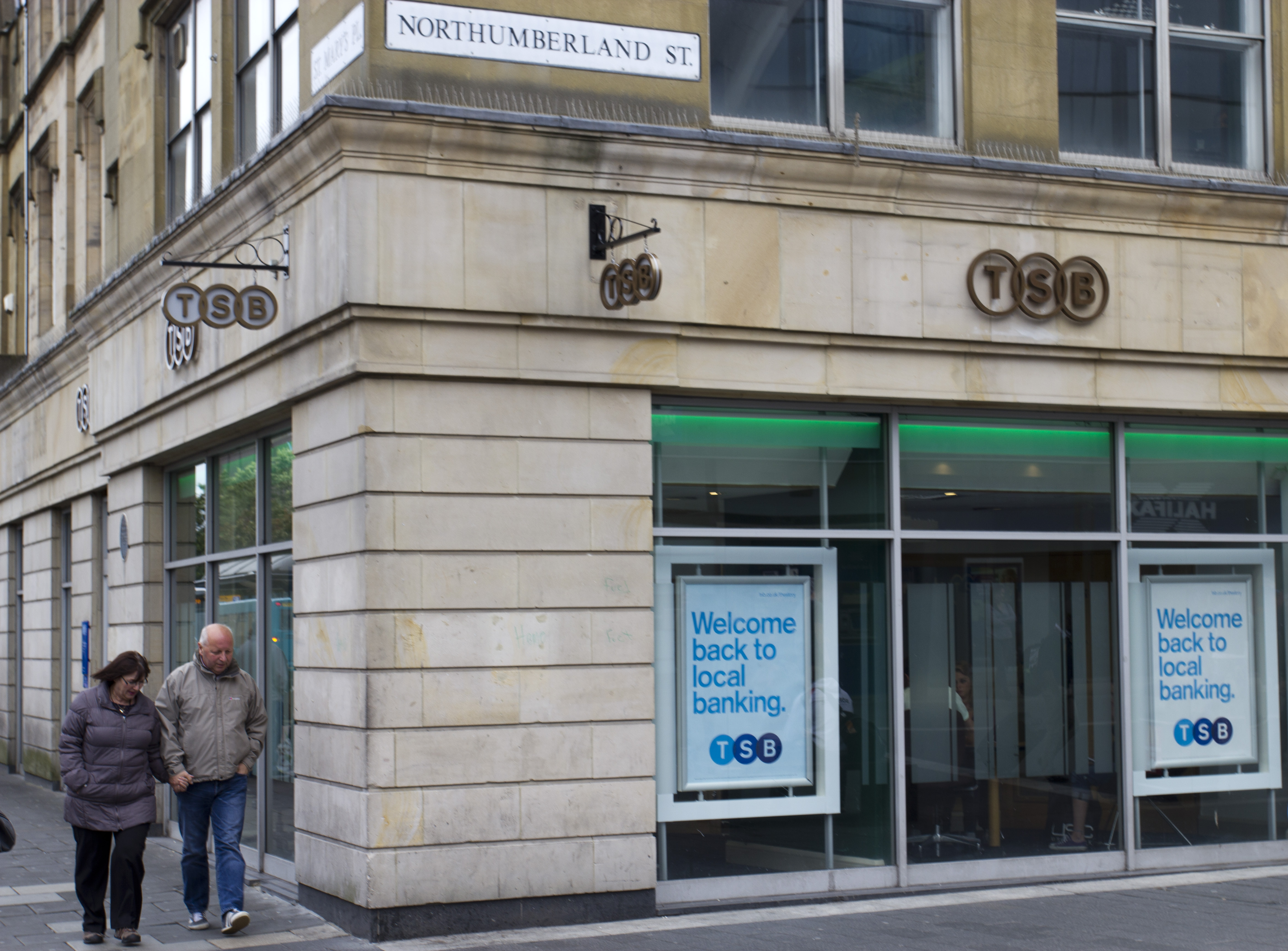 TSB Bank Newcastle upon Tyne Haymarket following the Lloyds-TSB to TSB Bank re-branding in September 2013